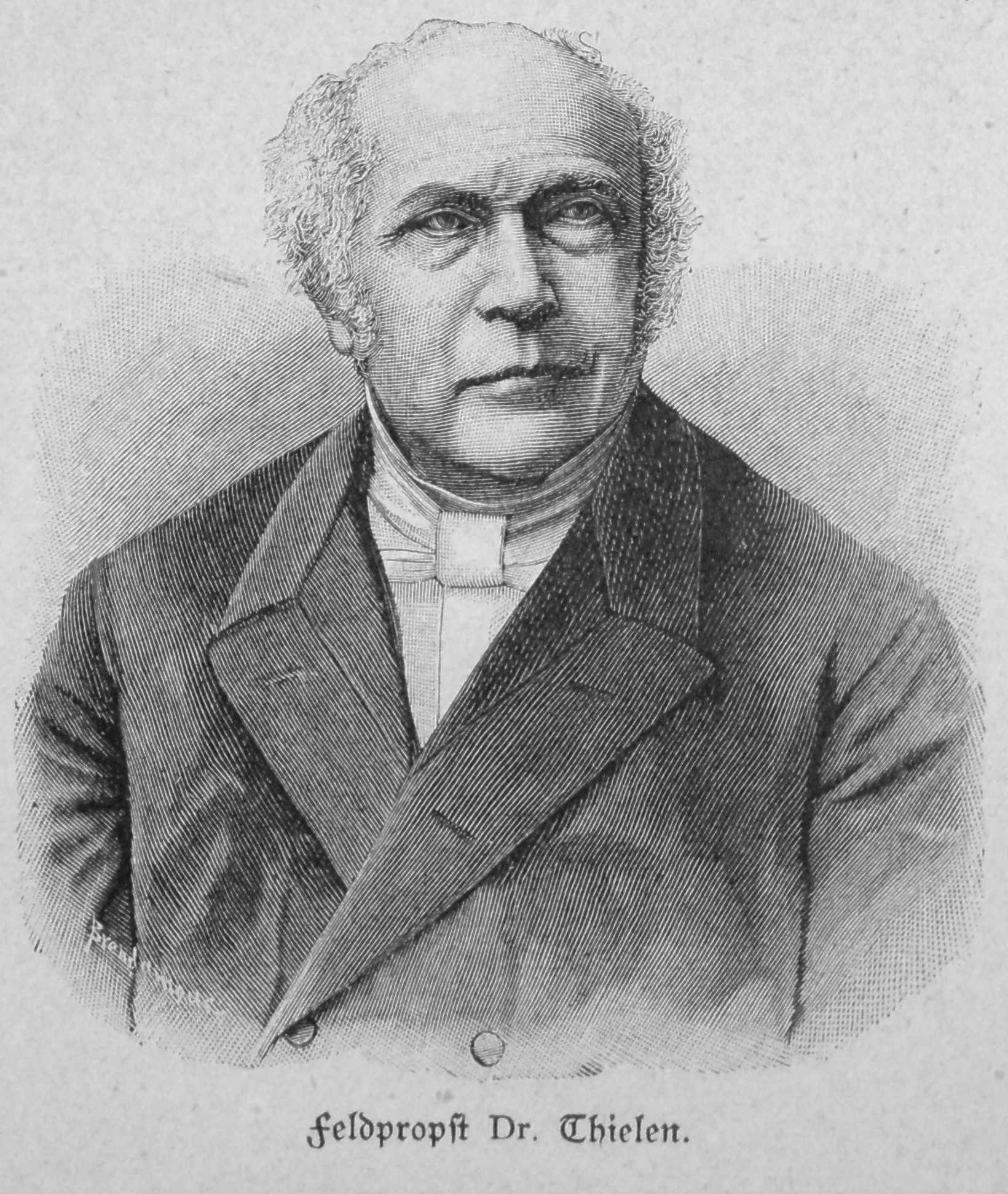 field-provost Dr. Thielen